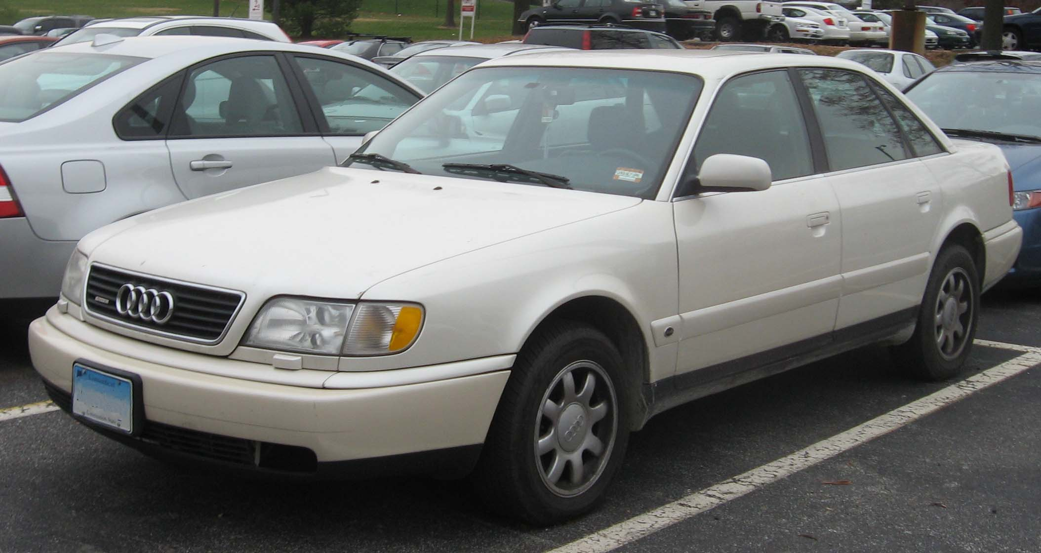 1994-1997 Audi A6 photographed in College Park, Maryland, USA.